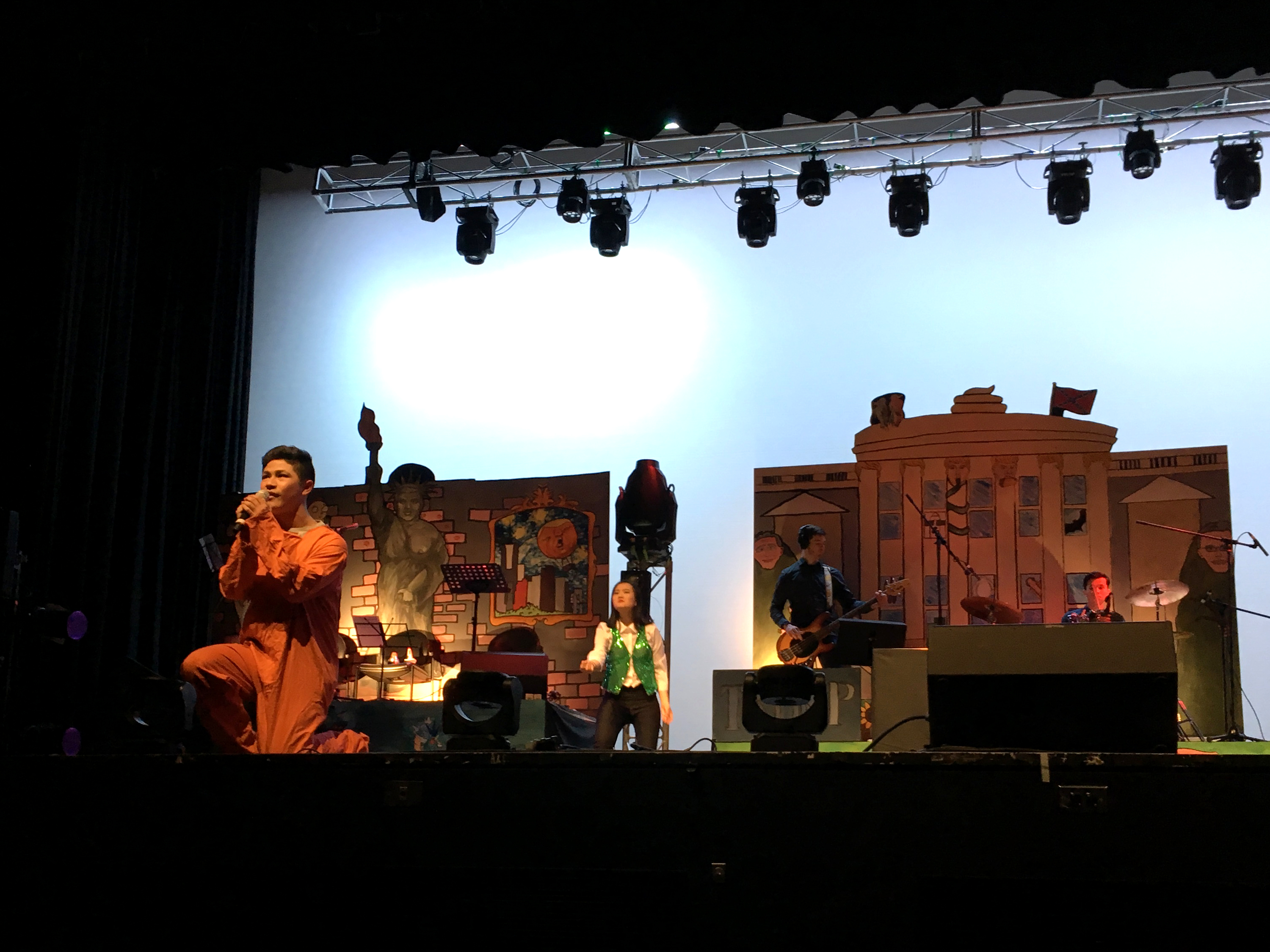 Isaac Dela Torre makes an awe-inspiring solo performance during "Lady and the Trump", the University of New South Wales Law Society's 2017 running of its annual musical, dance, and sketch comedy show, UNSW Law Revue.